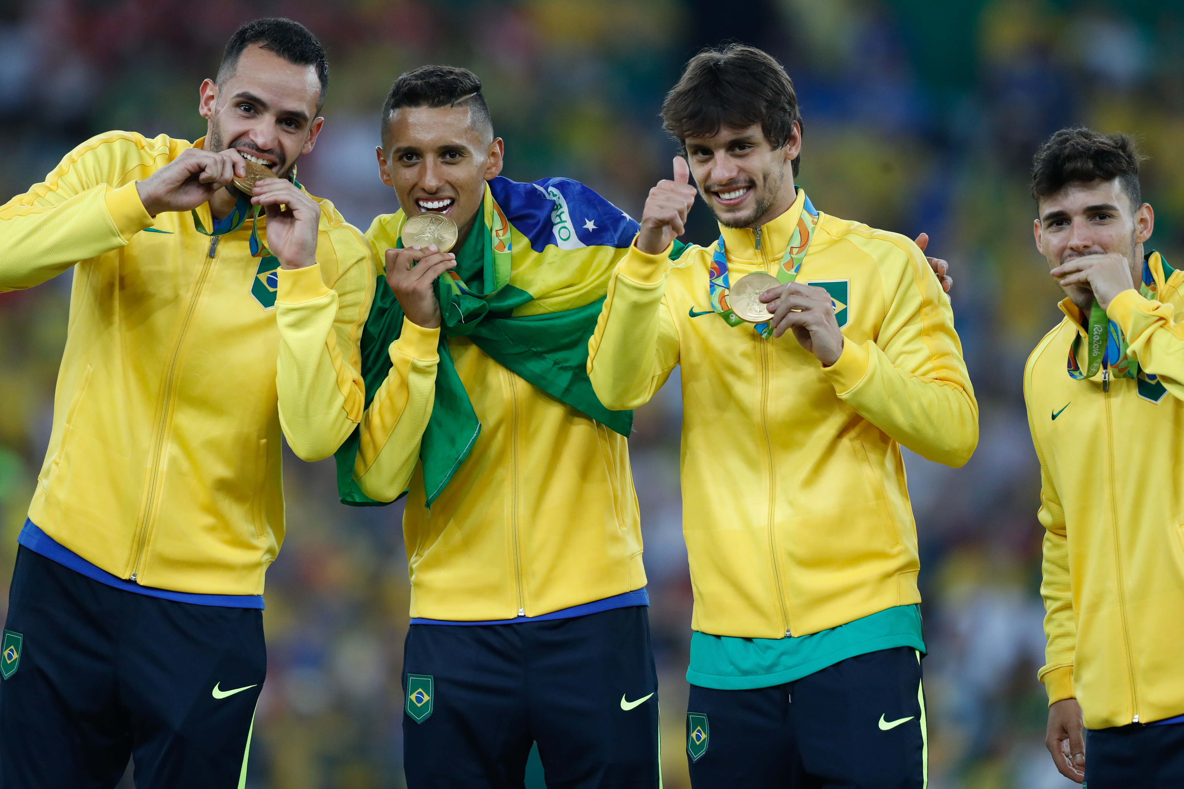 Rio de Janeiro - Brasil vence Alemanha e conquista primeiro ouro olímpico do futebol (Fernando Frazão/Agência Brasil)